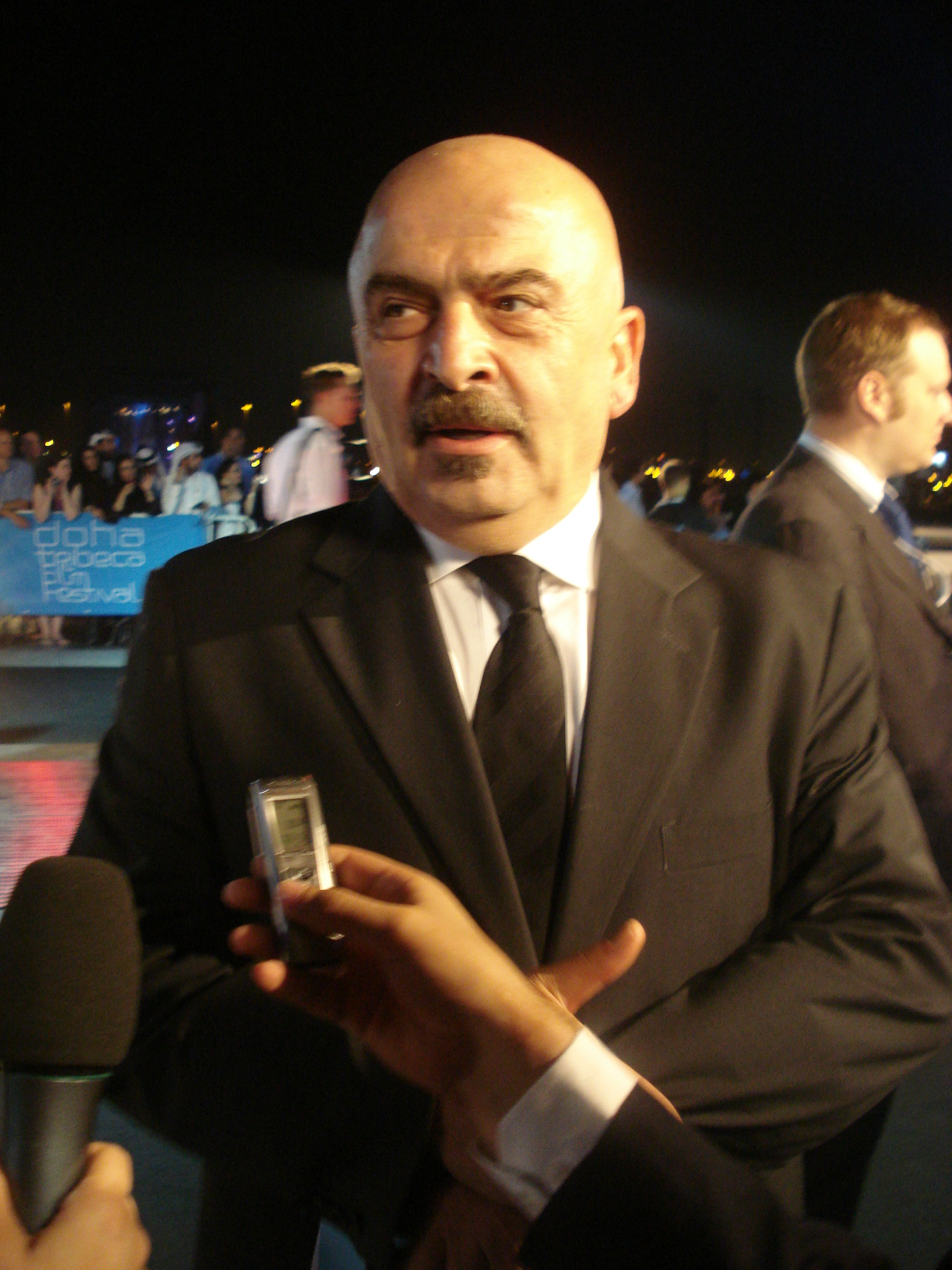 Syrian actor Salloum Haddad in Qatar 2009